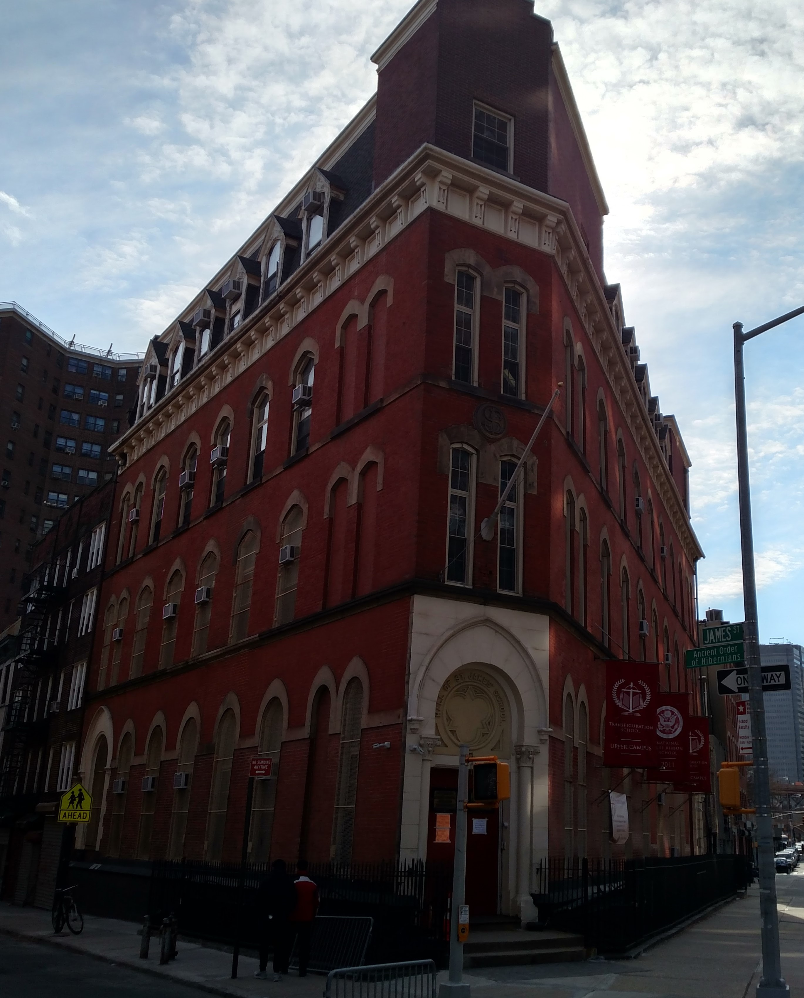 Upper campus of Transfiguration School at 37 St. James Place, New York, NY, USA. It was the St. James Elementary School until 2010. Two plaques on the front door say: "Governor Alfred E. Smith attended this school. It was here he received his only formal education."